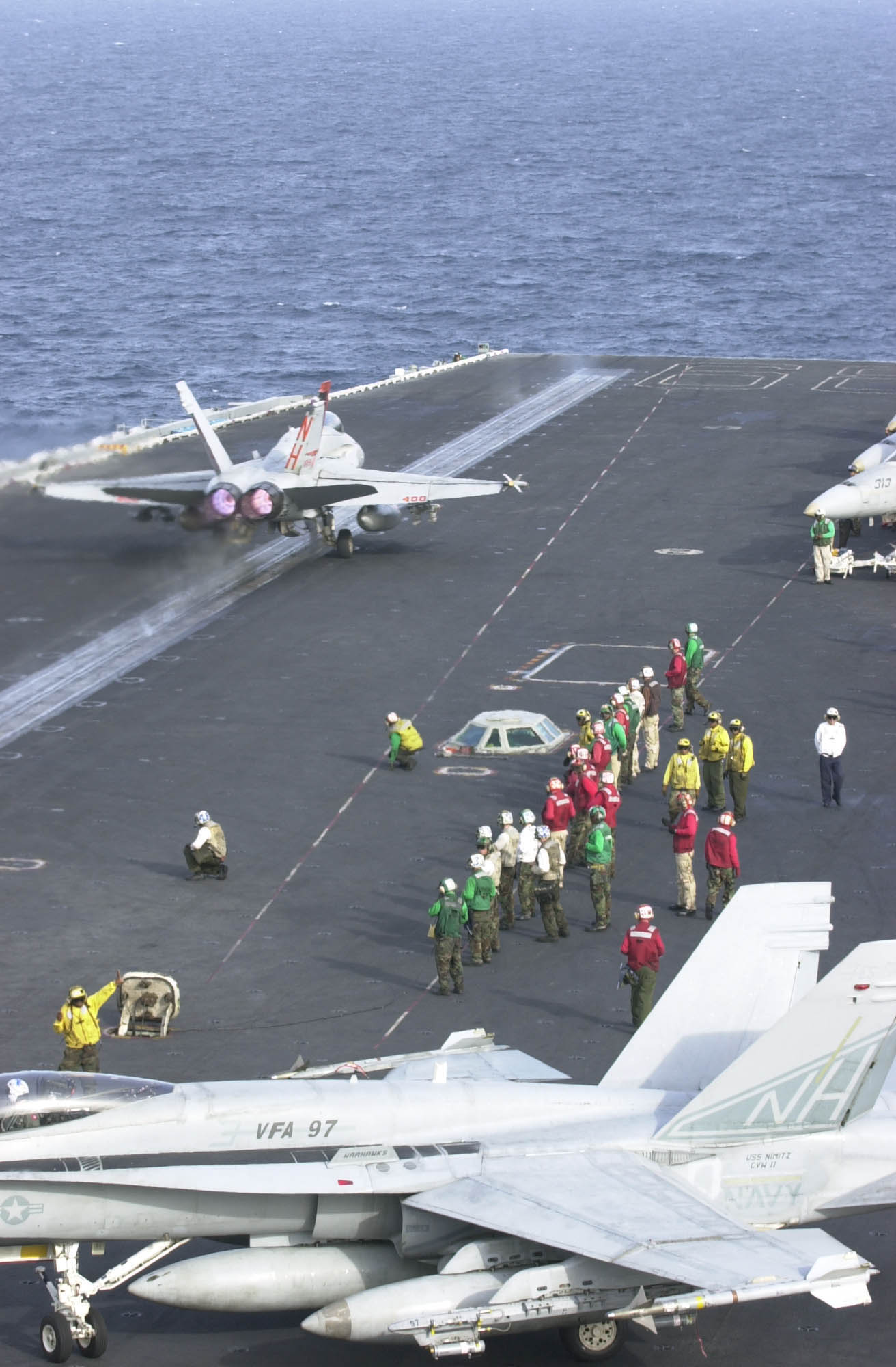 The Arabian Sea - An F/A-18 Hornet from the "Mighty Shrikes" of Strike Fighter Squadron Ninety Four (VFA-94) launches from the flight deck of USS Nimitz (CVN 68).